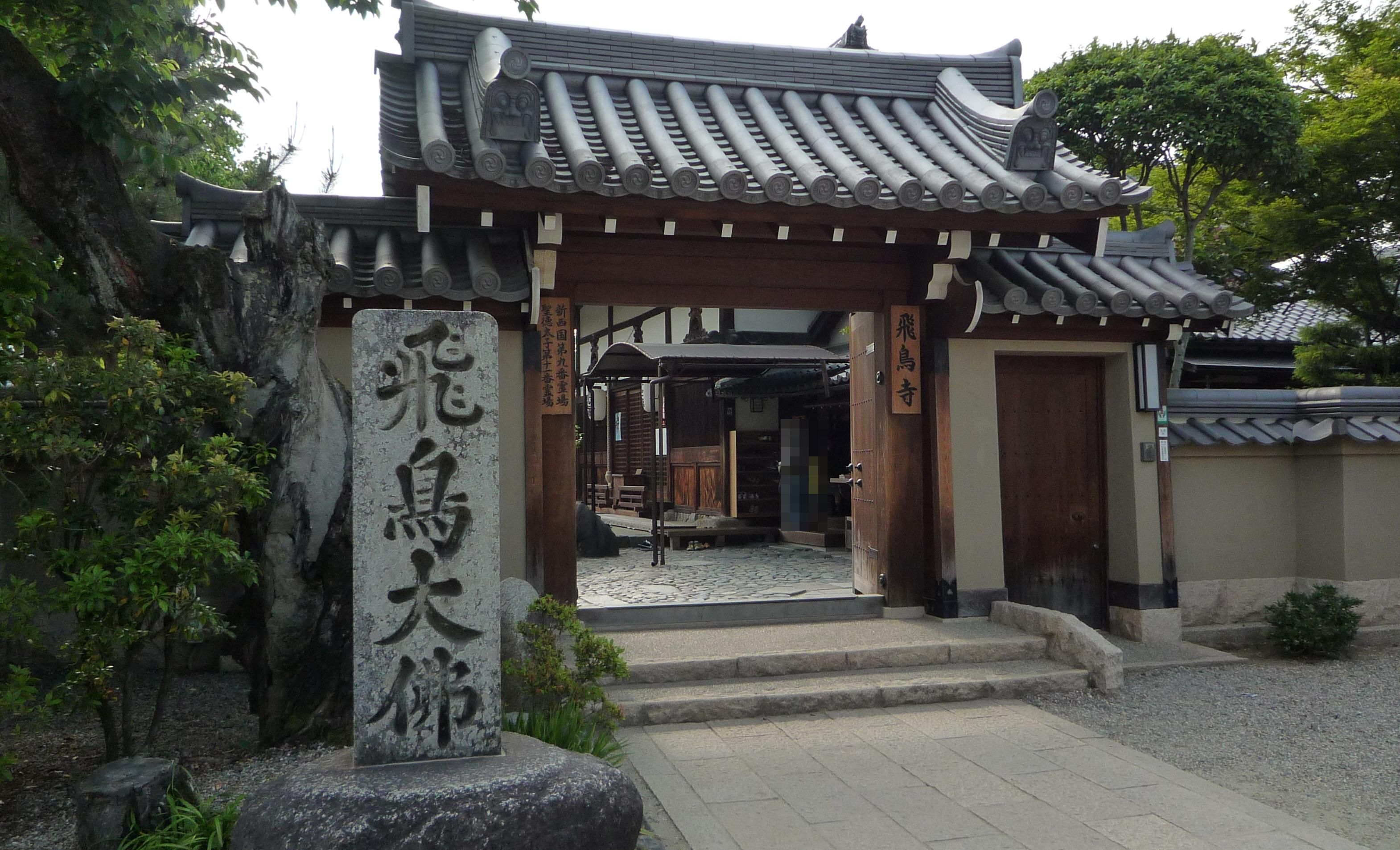 Japan Nara,Asuka Asuka-Dera (Asuka Temple)